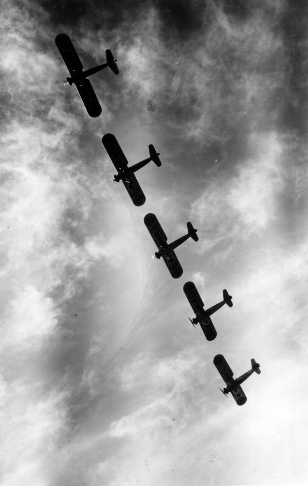 Hispano E-30 trainers of the Aeronáutica Naval (Spanish Republican Navy). Image from an Album belonging to Harry White, 1919-1947, documenting his career as a Naval Aviator. SOURCE INSTITUTION: San Diego Air and Space Museum Archive